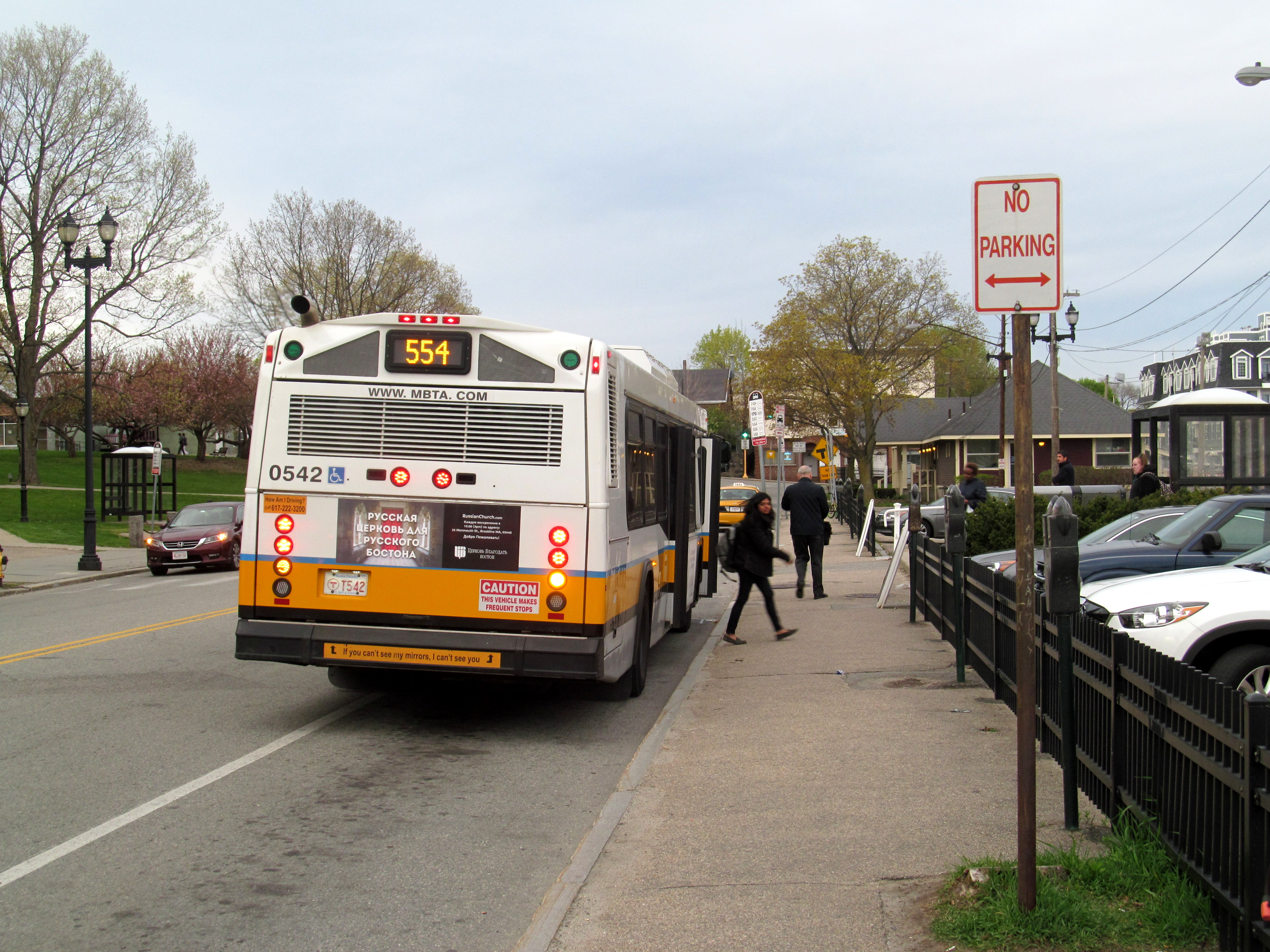 A route 554 bus picks up passengers at Waltham station in April 2016